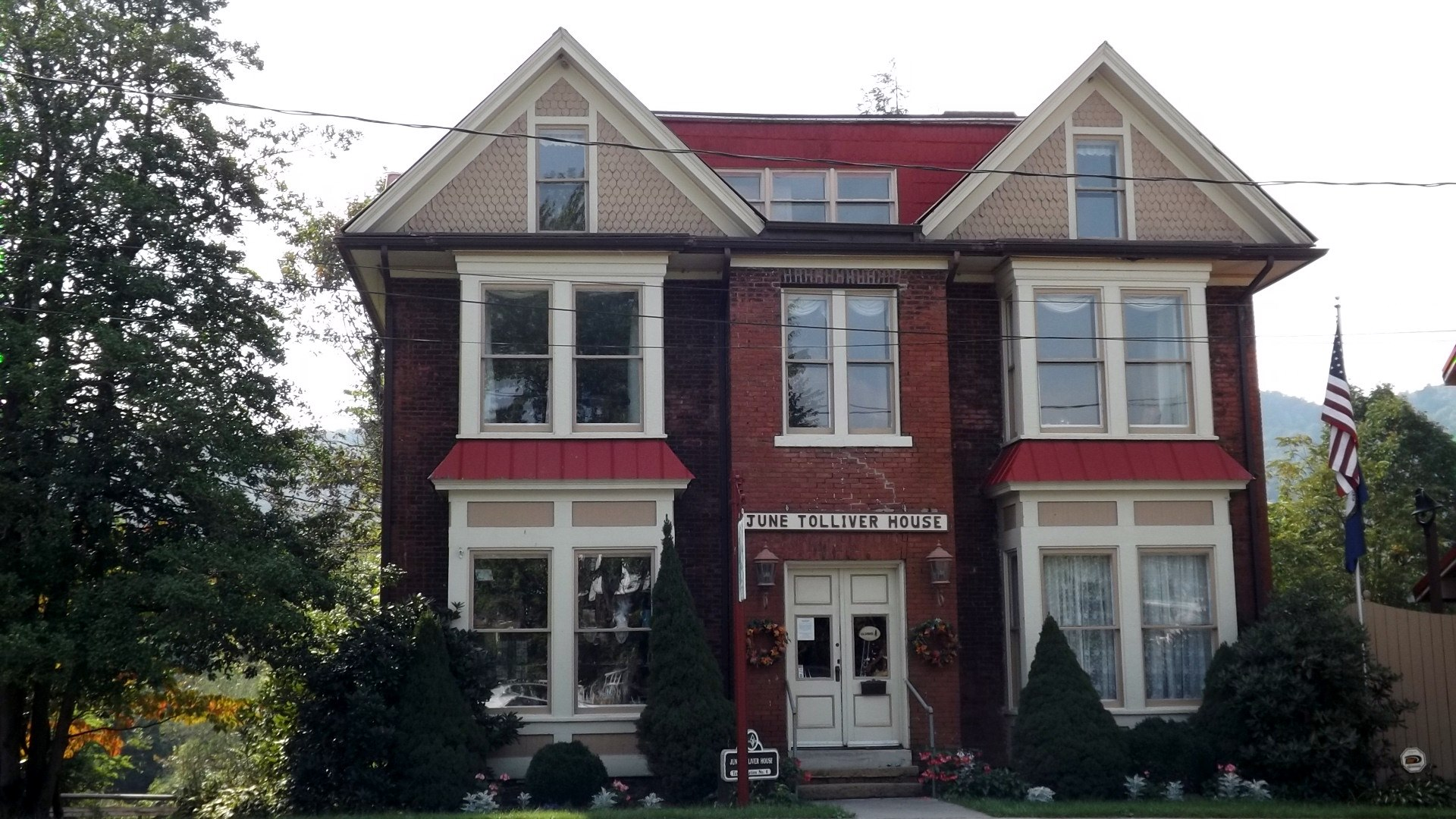 "June Tolliver" House, On VA 613 Big Stone Gap